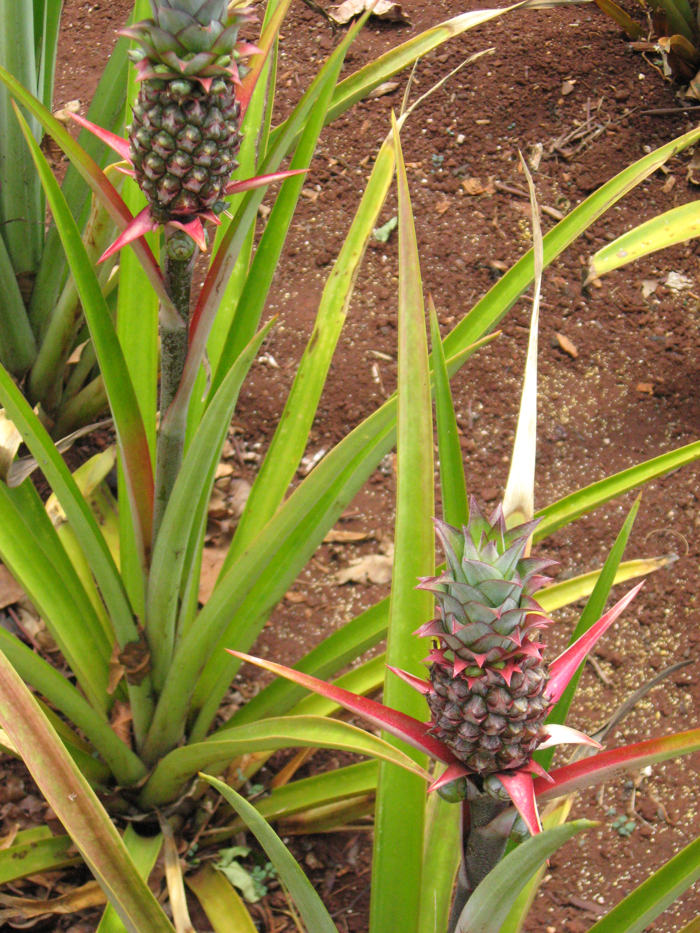 Dole Food Company's pineapple plantation in Oahu, Hawaii